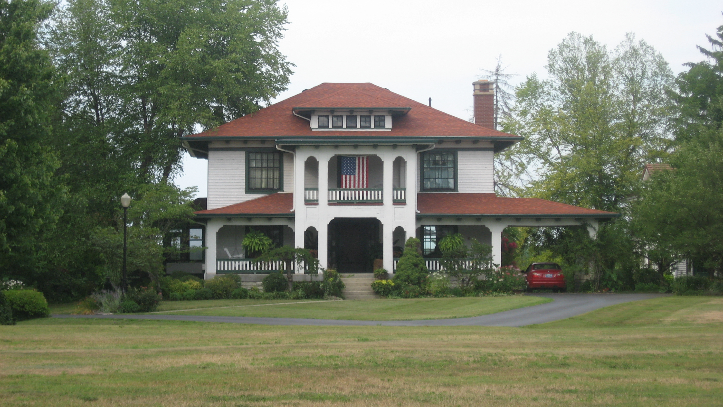 Front of Annadale, located at 502 S. Jennings Street in North Vernon, Indiana, United States. Built in 1910, it is listed on the National Register of Historic Places.